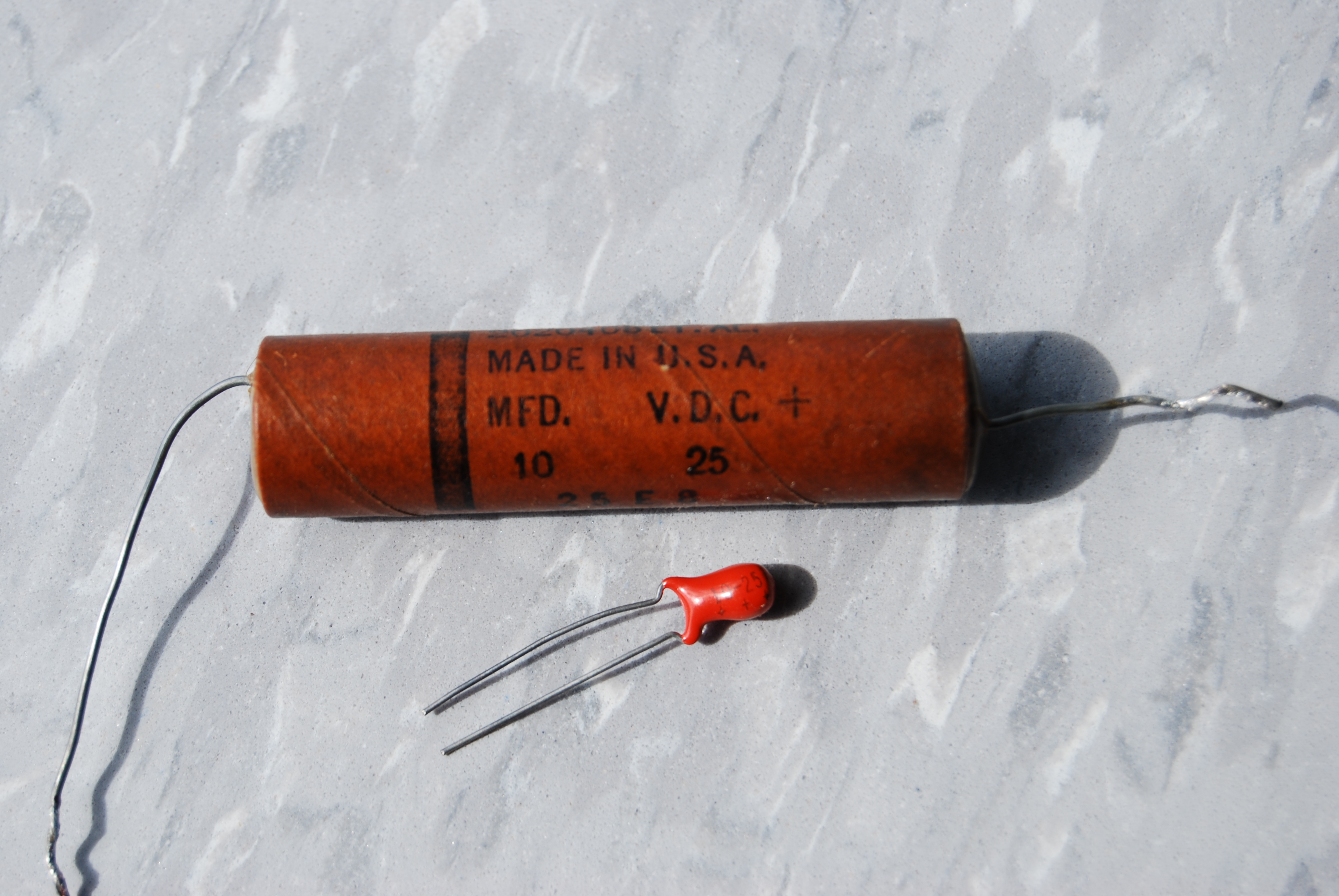 Sprague invented the Tantalum Capacitor during World War 2. It permitted electrolytic type capacitors to be smaller in size. However tantalum is not as resistant to over voltage or spikes.